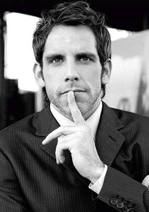 Ben Stiller photographed by Jerry Avenaim